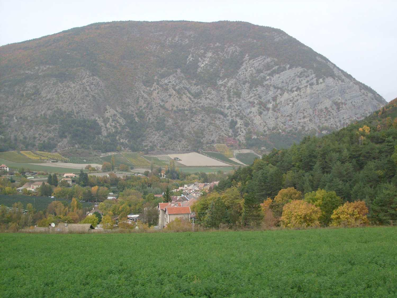 Village of Valserres, in the valley of Avance; in the background: Puy Cervier(1239 m)( Hautes-Alpes, France)